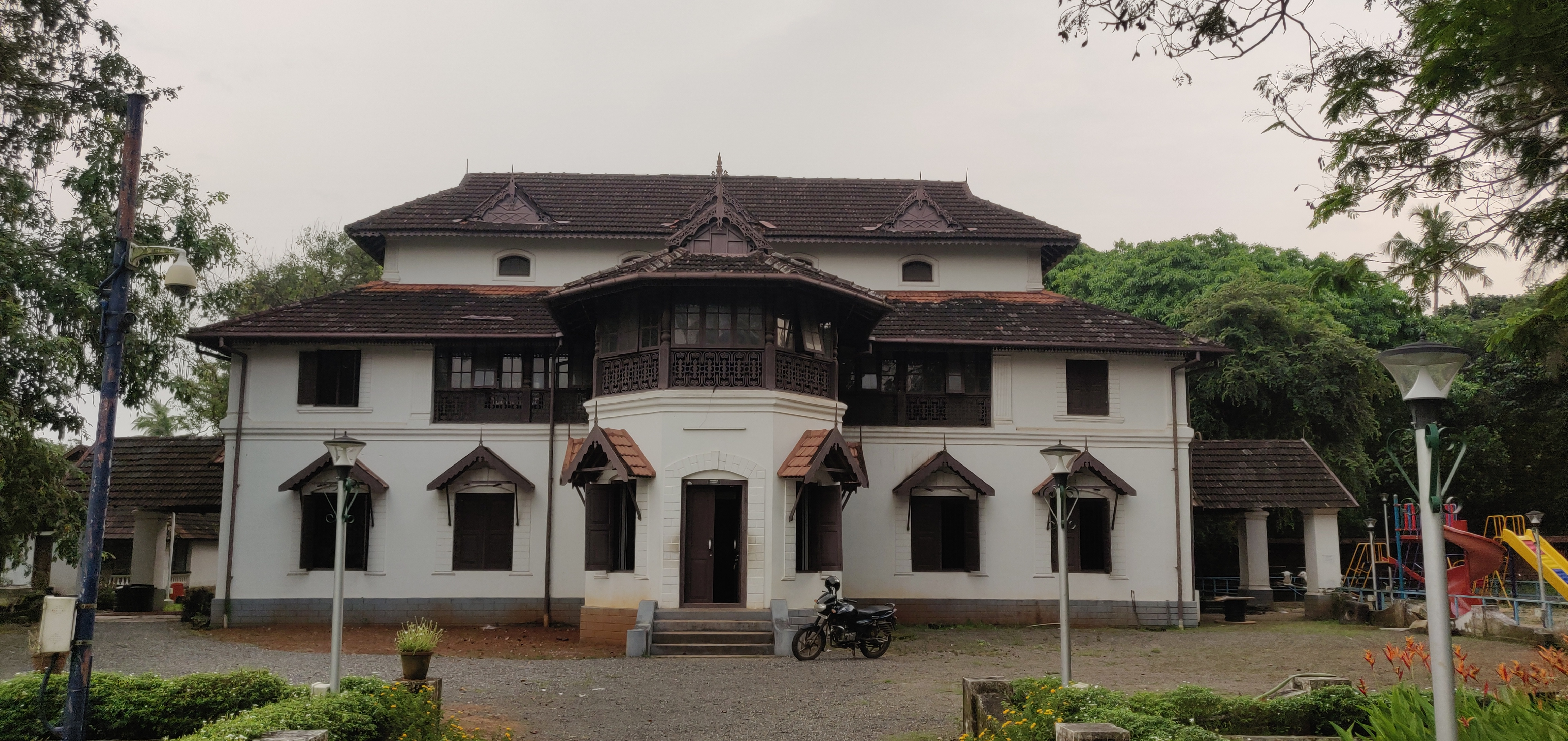 Kollemkode palace, Chembookkavu, Thrissur, Kerala, India